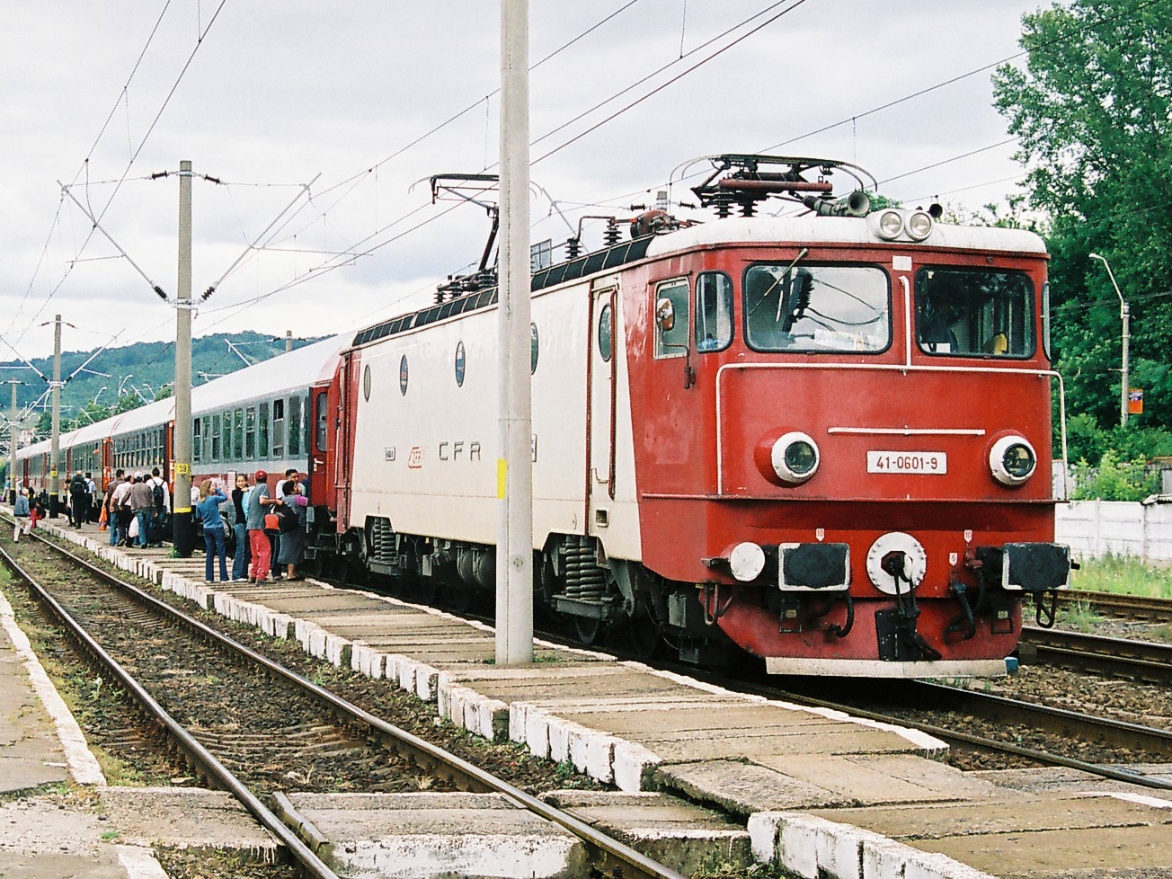 Intercity in Mediasch. Locomotive class 47.